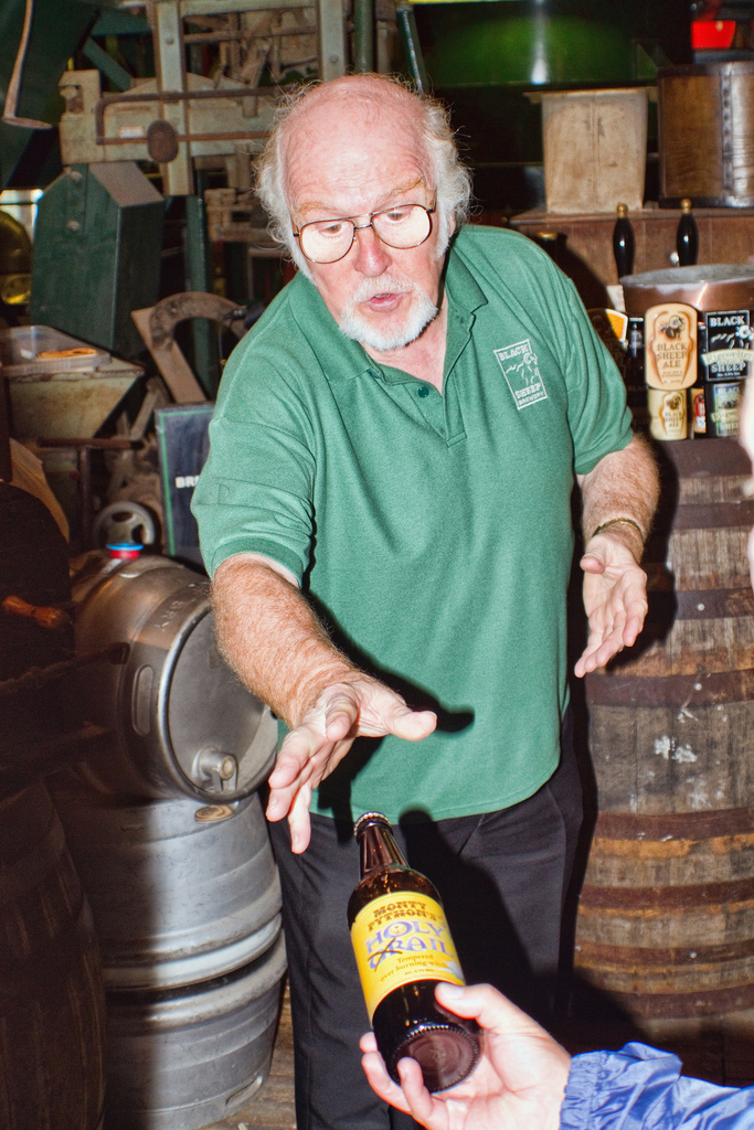 A tour guide at the Black Sheep Brewery is seen distributing a sample of "Monty Python's Holy Grail Ale", a beer which was commissioned to commemorate the 30th anniversary of famous British comedy troupe. The original high resolution copy of this photograph can be found online in this set of images.